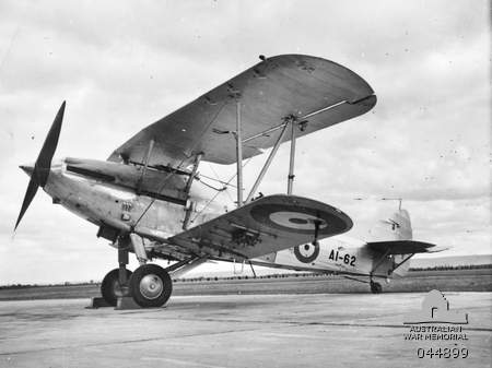 A Royal Australian Air Force Hawker Demon aircraft of No. 3 Squadron at RAAF Base Richmond, New South Wales in 1939.